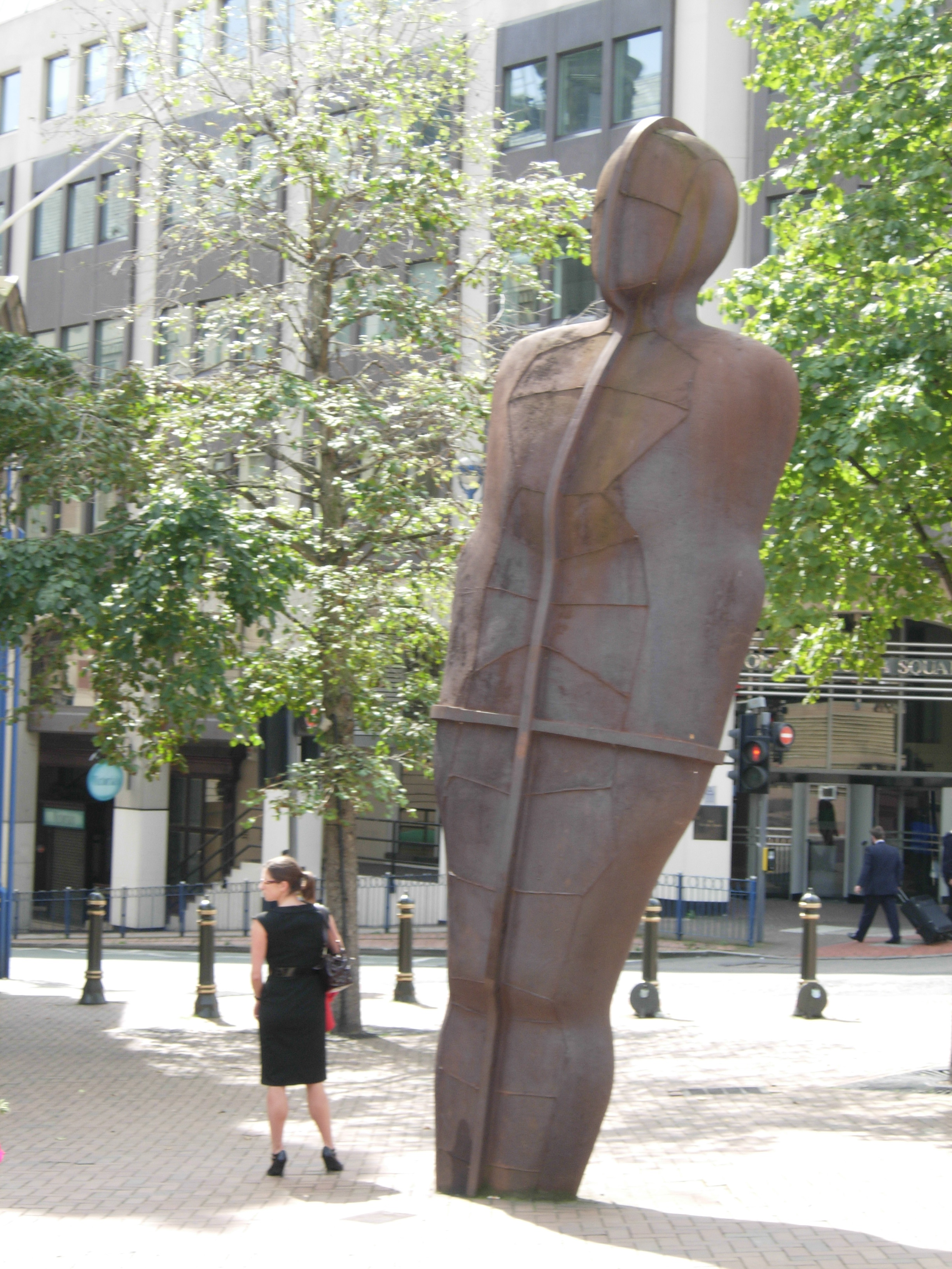 The statue Iron: Man by Antony Gormley in Birmingham, West Midlands, UK.